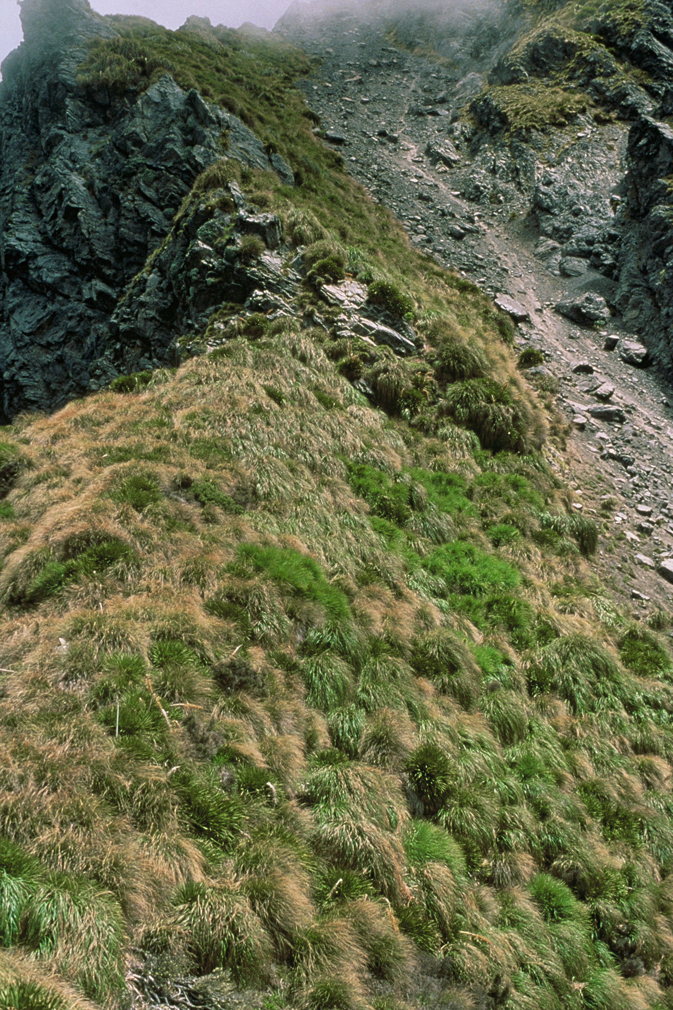 Hutton's shearwater. Breeding colony. Shearwater Stream, Seaward Kaikoura Range, December 1993. Permission supplied with image: “All DOC images are available under Crown copyright and licensed for reuse under Creative Commons Attribution 4.0 so just credit Department of Conservation.” —Laura Honey, Web Communications Advisor, DOC, 29 Feb 2016